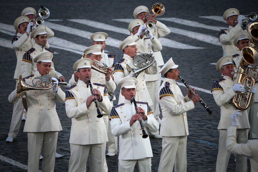 The Presidential Band of the Russian Federation participating in the Spasskaya Tower Festival in 2014.